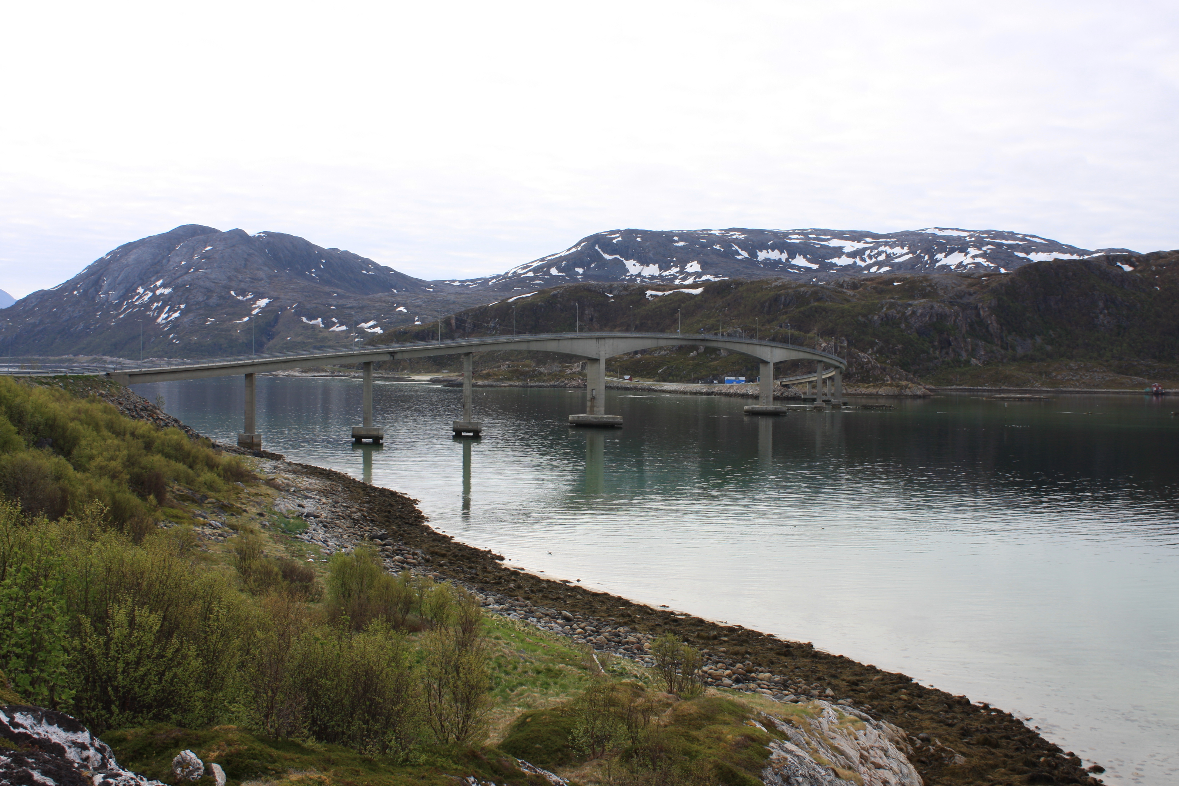 The bride to Sommarøya in Tromsø kommune, Norway. Picture is taken facing southeast.